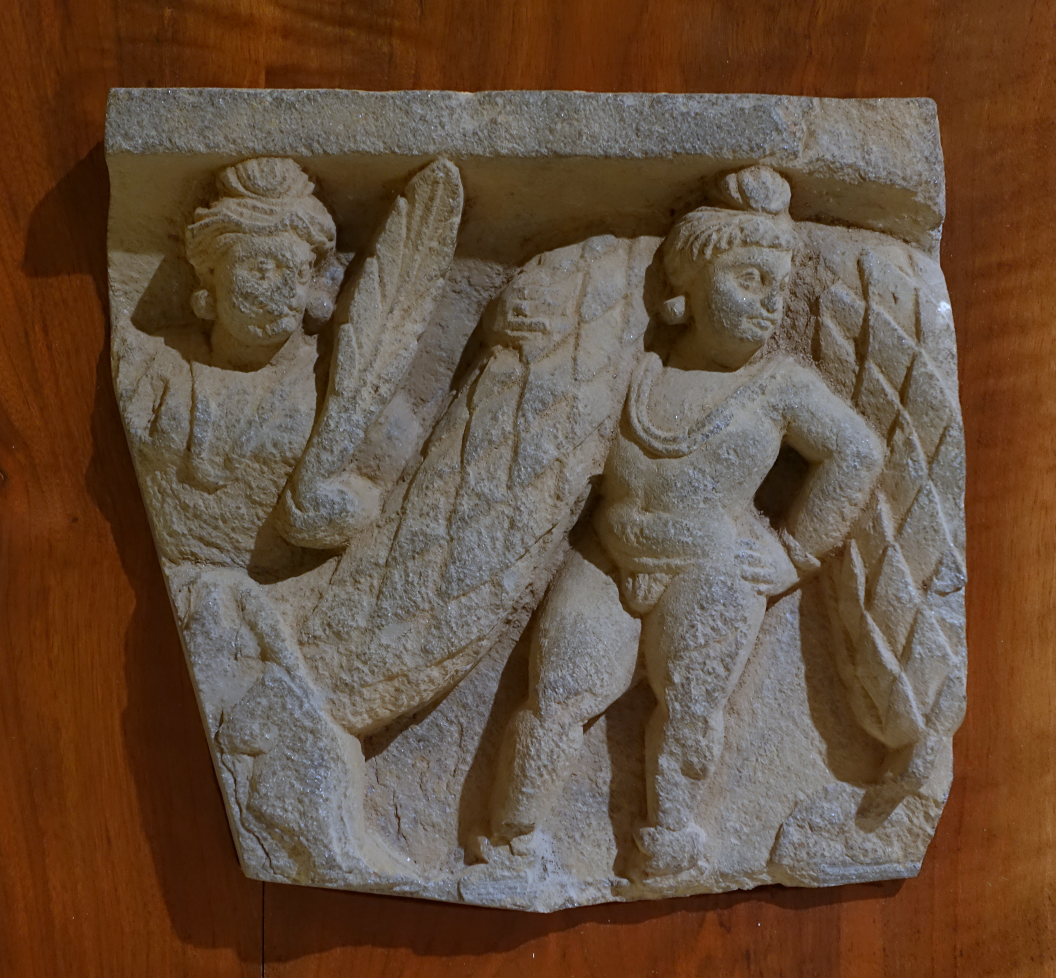 Exhibit in the Jordan Schnitzer Museum of Art, University of Oregon - Eugene, Oregon, USA.